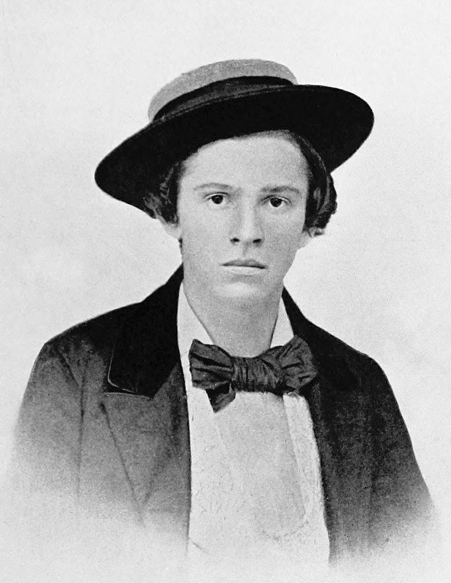 Future senator Mark Hanna as a boy. Hanna was born in 1837. The book the image was contained in was published in 1912.